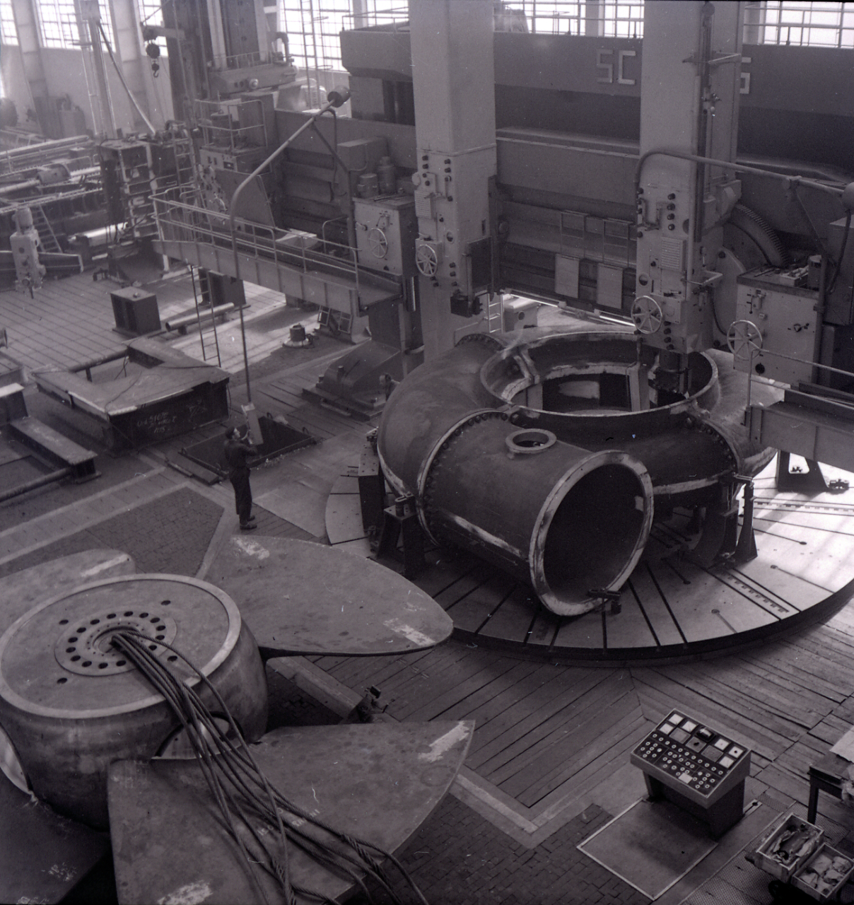 Vertical boring and turning mill